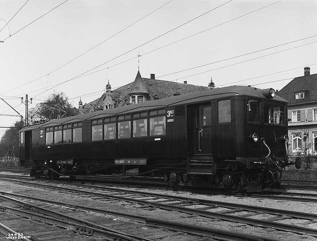 Norwegian State Railways (NSB) Class 62 electric multiple unit